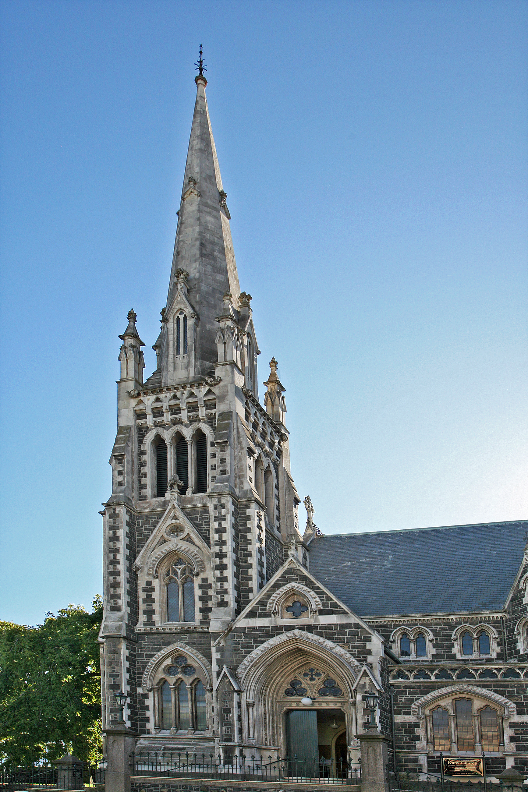 Knox Church in Dunedin (New Zealand), a Presbyterian church (named after the Scottish reformer John Knox).